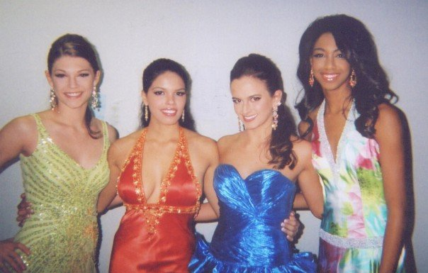 Photo taken by me - some of the Miss Teen USA girls at a photo shoot in Missouri.